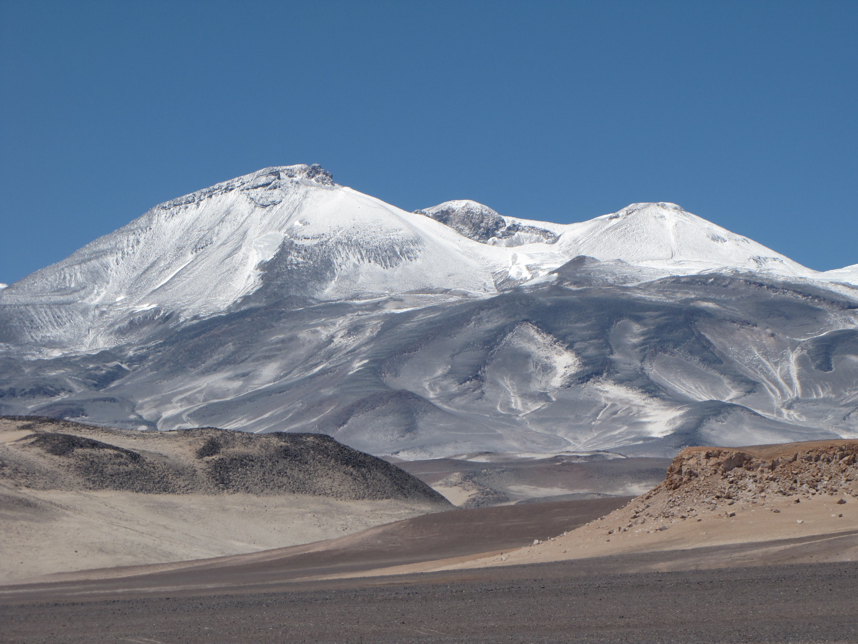 Goodbye Ojos del Salado